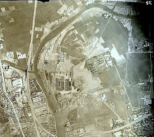 Part of Sankaiseki中文（台灣）: 中都, 三塊厝, 高雄